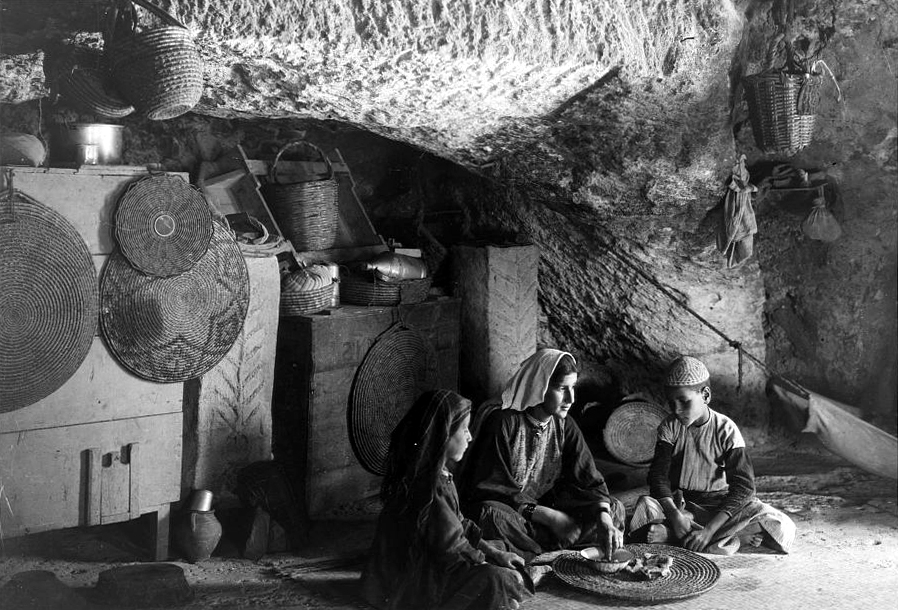 breakfast in a poor home in Bethlehem 1920